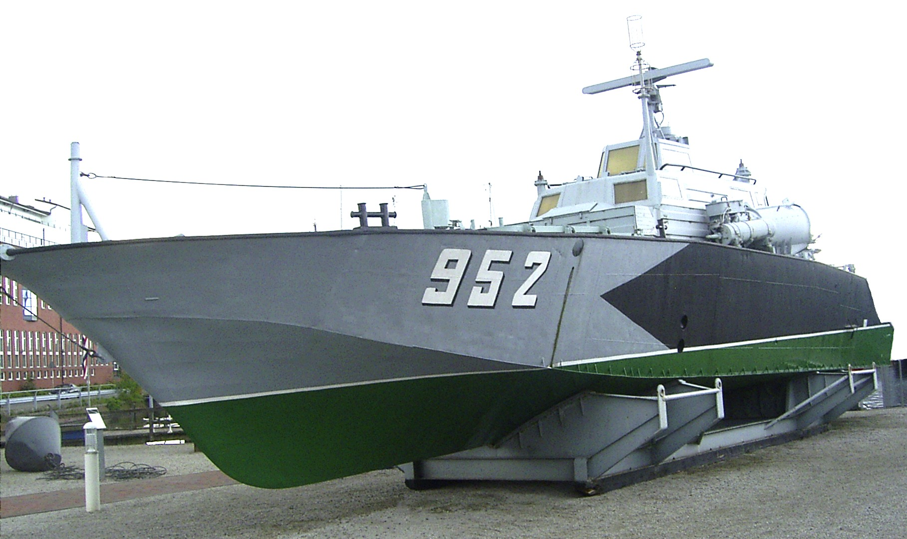 Small torpedo booat Nr. 952 (factory number 131.423) of Project 131 (Libelle) class of the GDR Navy.